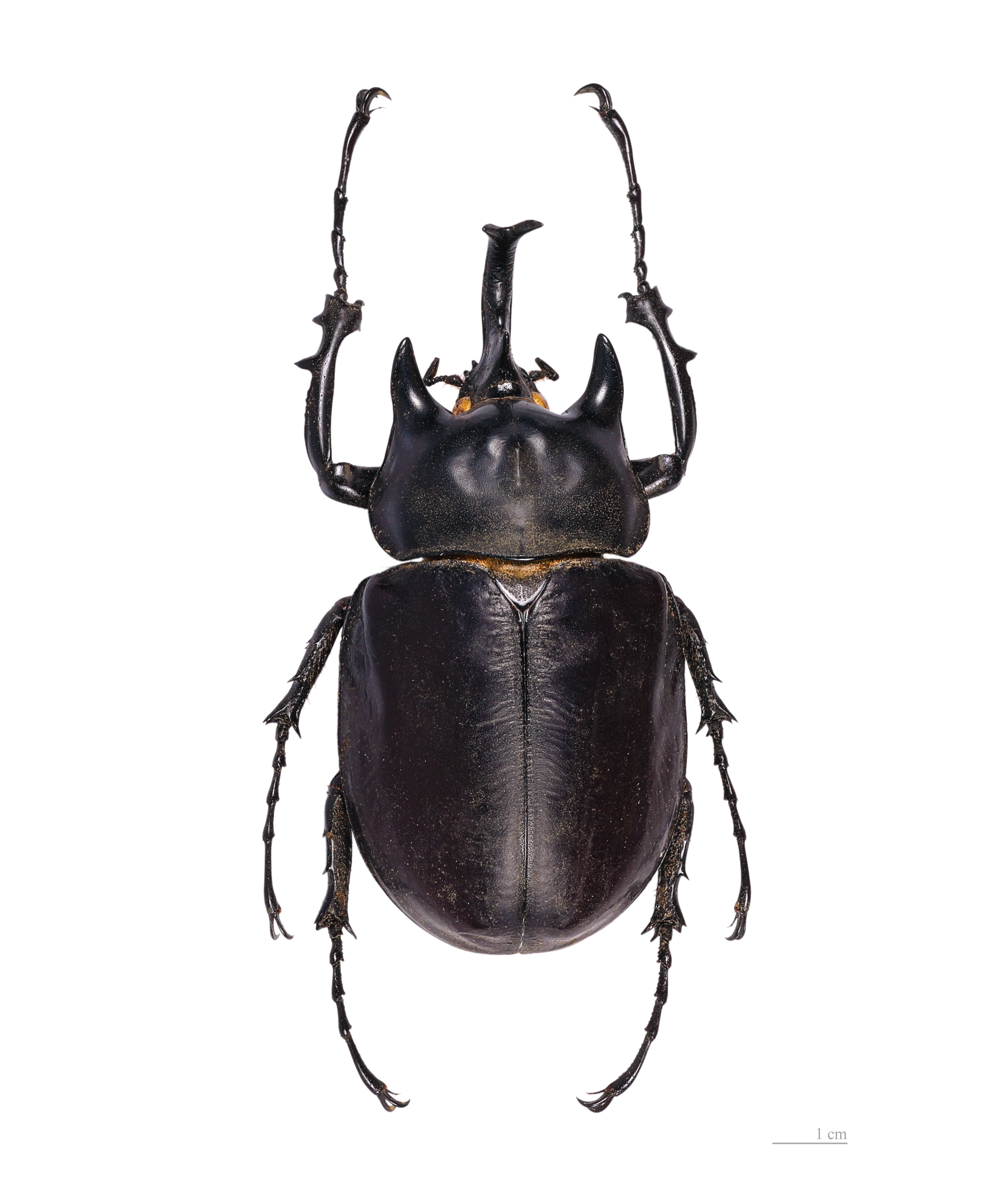 ♂ Locality : Cacao, Mont Table, French Guiana.